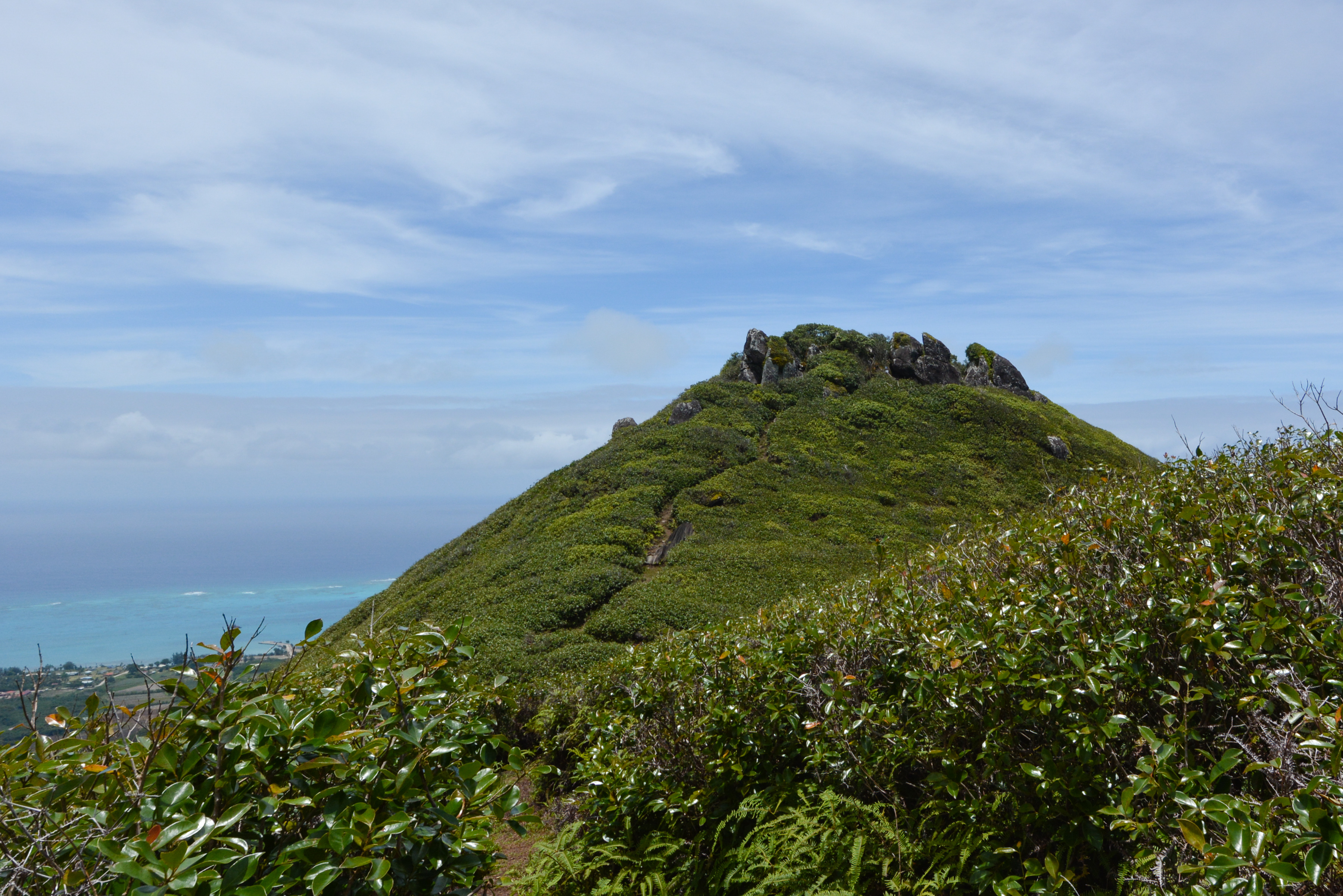 Shot of Tubuai (French Polynesia) taken from mount Taitaʼa.